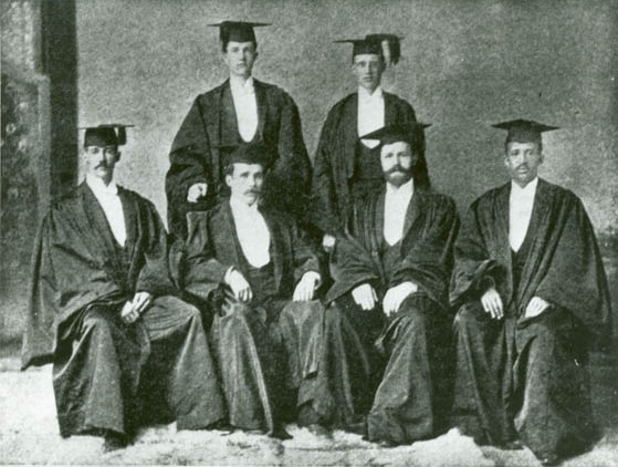 Du Bois, W. E. B., Harvard graduation (dup. ), 1890